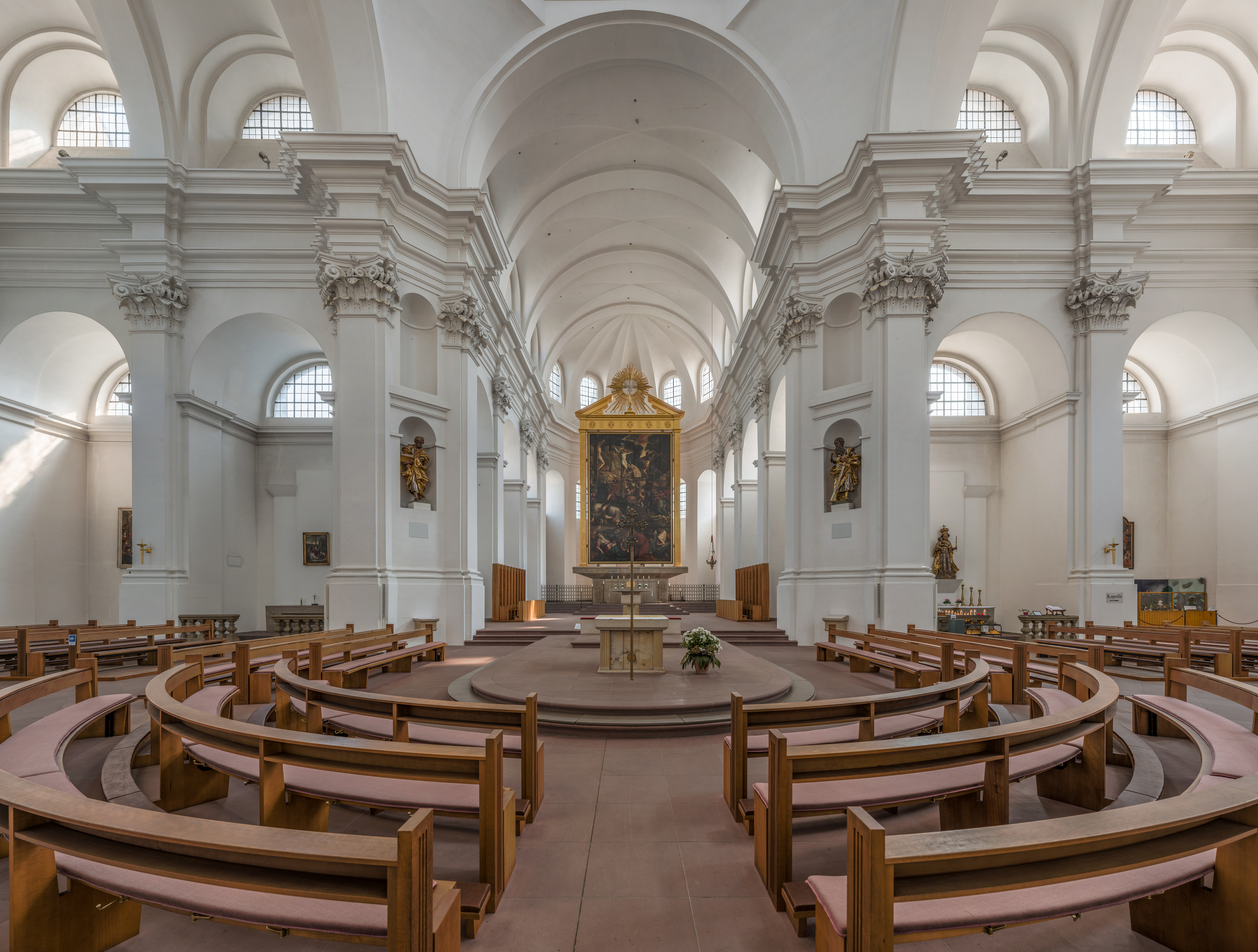 The nave of Stift Haug, WürzburgThis is a photograph of an architectural monument.